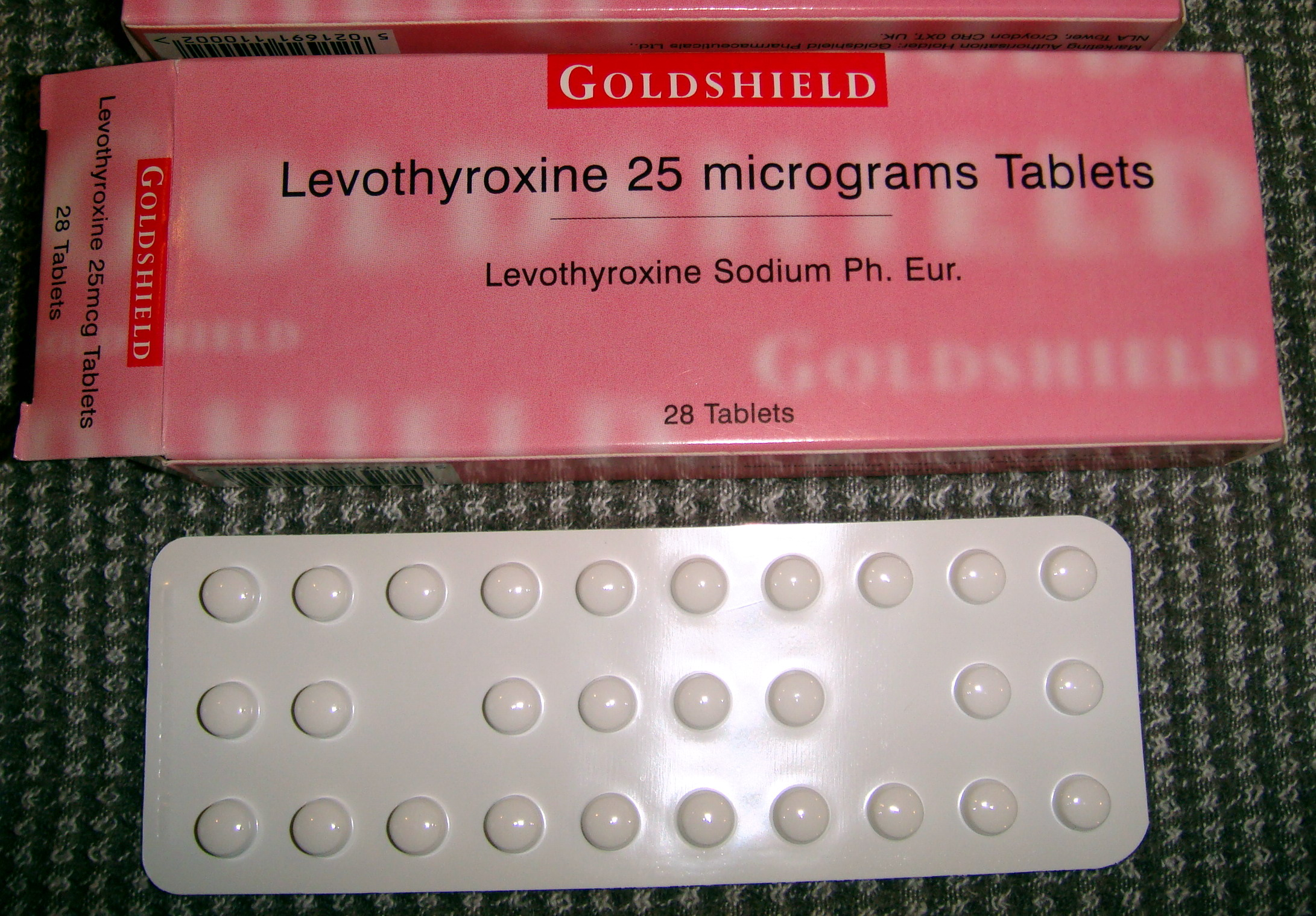 Levothyroxine 25mcg tablets